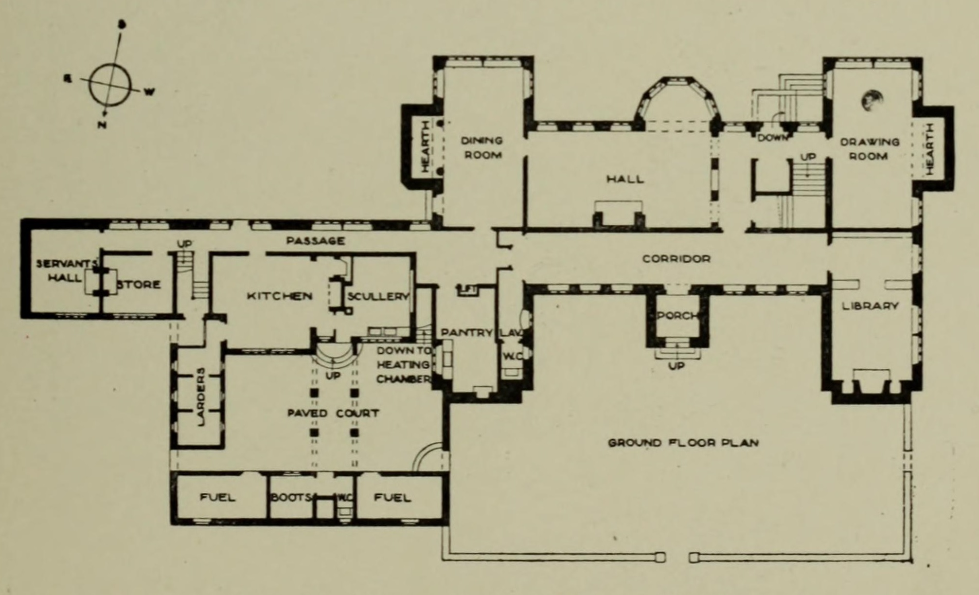 Illustration from the book Lutyens houses and gardens (1921) featuring Little Thakeham, Thakeham, Sussex.